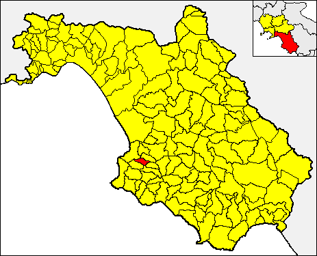 Locator map of the municipality of Torchiara (red) within the Province of Salerno